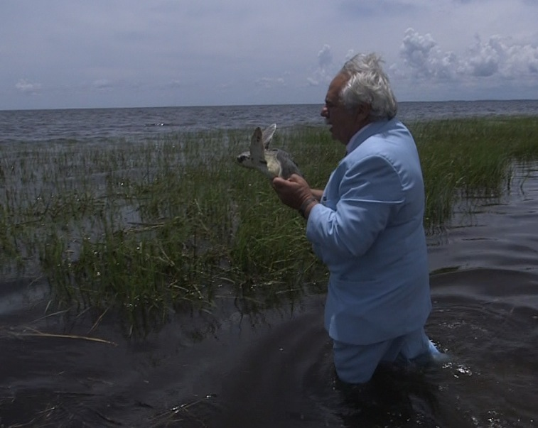 Jack Rudloe releasing sea turtle